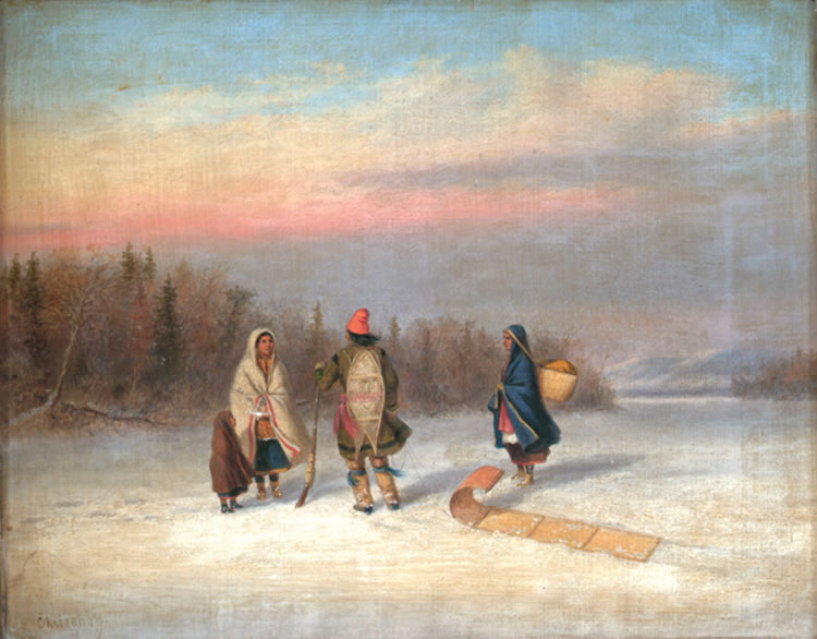 Caughnawaga Indians in Snowy Landscape